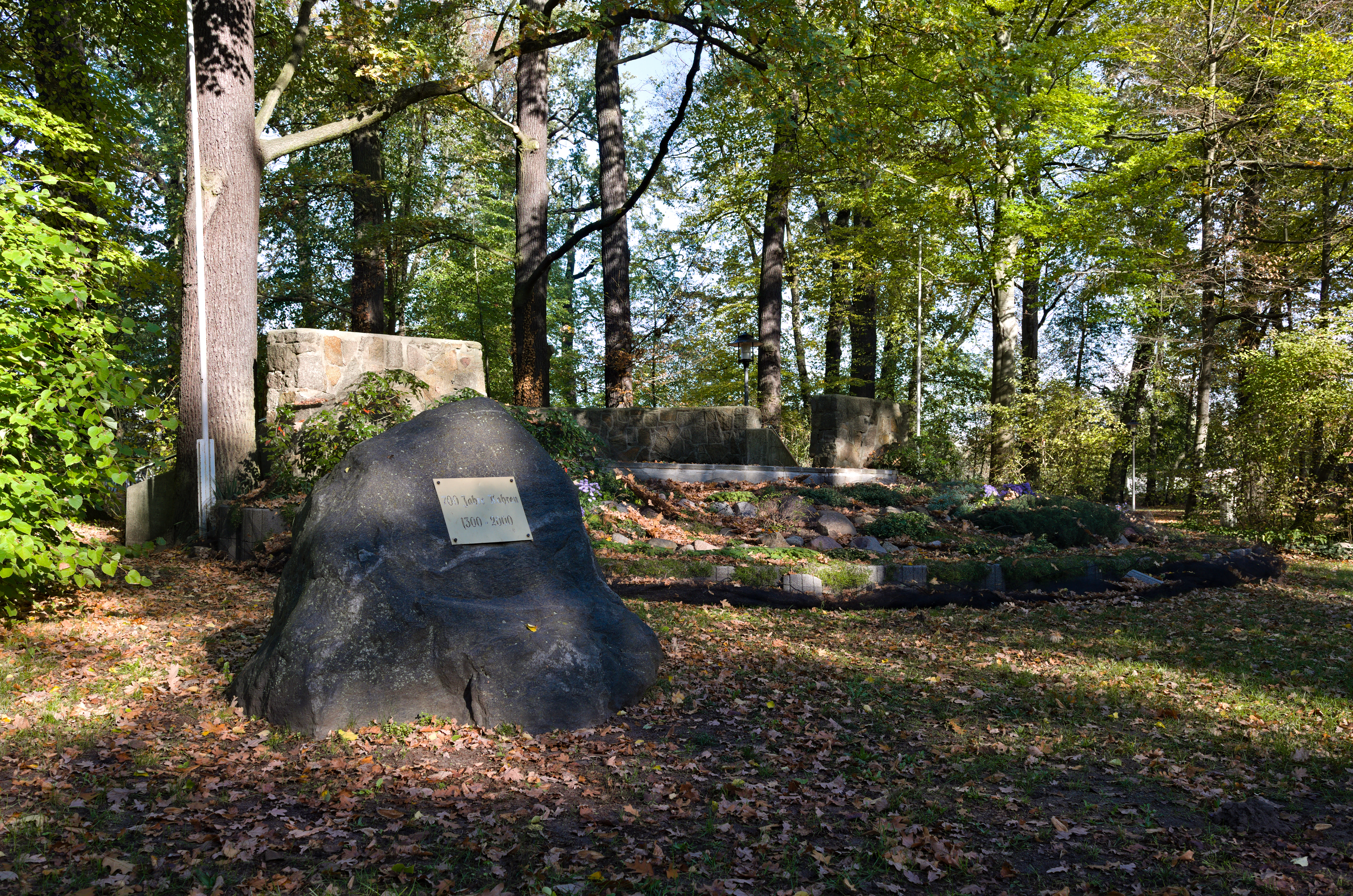 Small public stage in Gutspark Kahren.